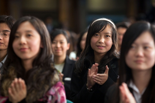 Members of the audience applaud as President Barack Obama addresses the town hall meeting with future Chinese leaders at the Shanghai Science and Technology Museum in Shanghai, China. November 16, 2009. (Official White House Photo by Pete Souza)